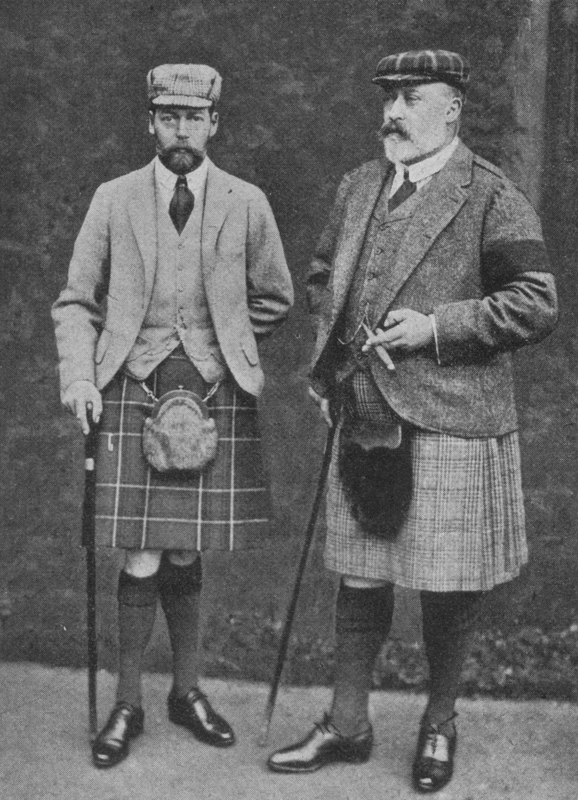 King Edward VII (right) of the United Kingdom with Prince George (left) in 1902.